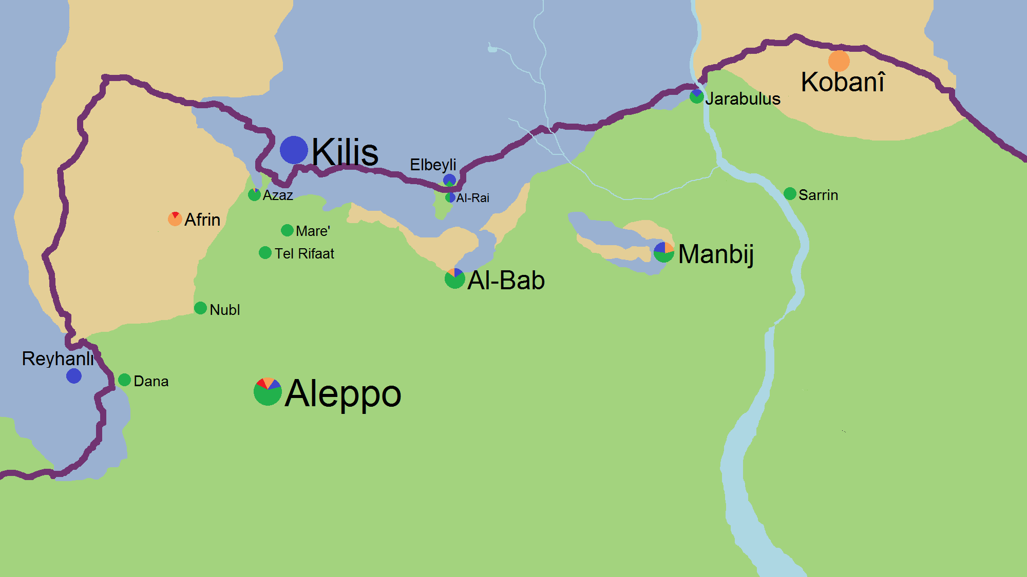 Ethnic map of the northern Aleppo Governorate, based on this and this. Kurds Armenians Arabs Turks and Syrian Turkmen